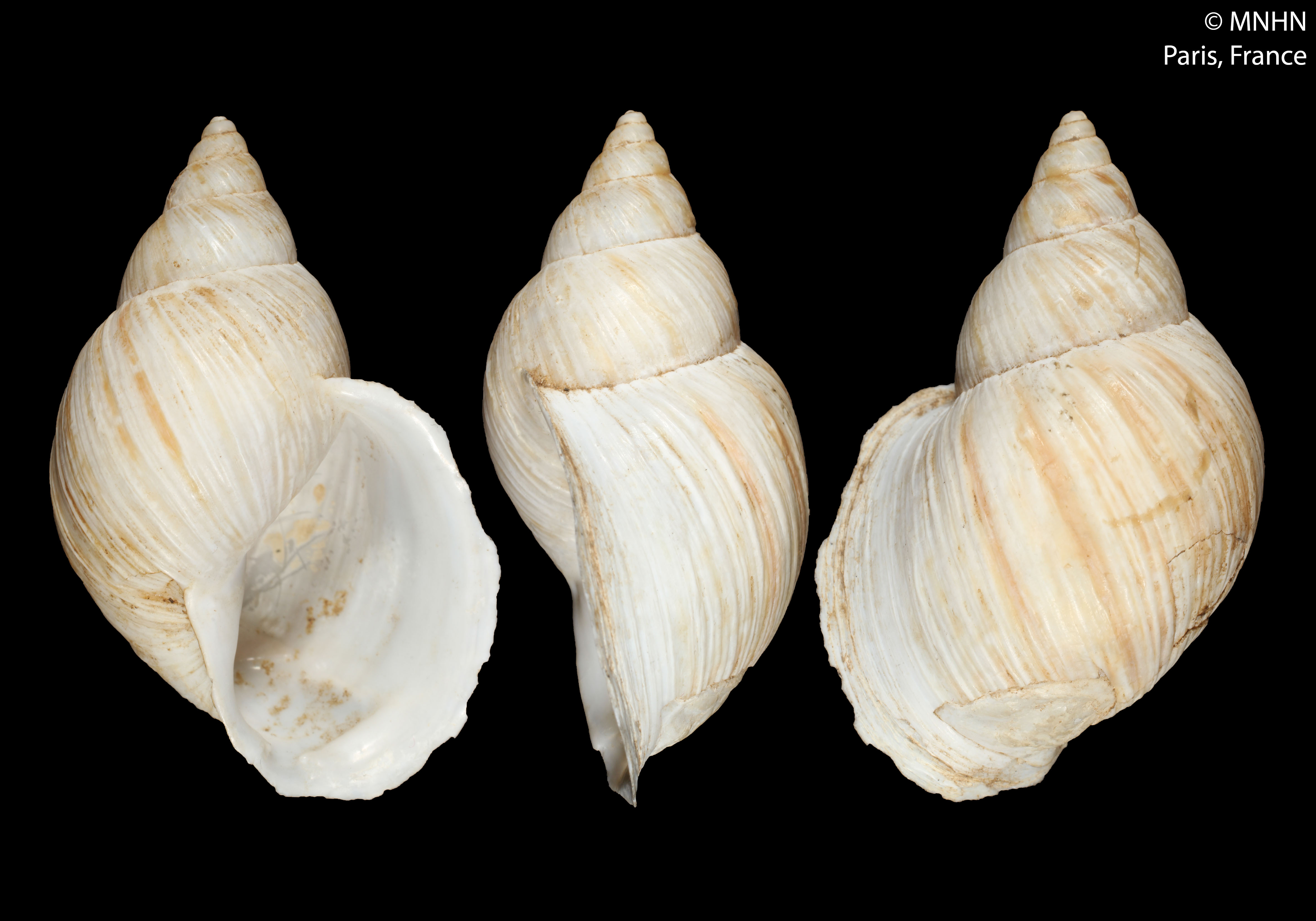 PRESERVED_SPECIMEN; Drymaeus dombeyanus (L. Pfeiffer, 1842) (synonym: Bulimulus chaperi Crosse & P. Fischer, 1893); Type status: SYNTYPE; Identified by: N/A; Individual count: 1; Event date: N/A